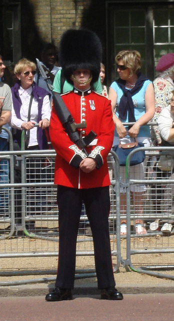 A soldier of the Grenadier Guards on the Mall during Trooping the Colour, 2009